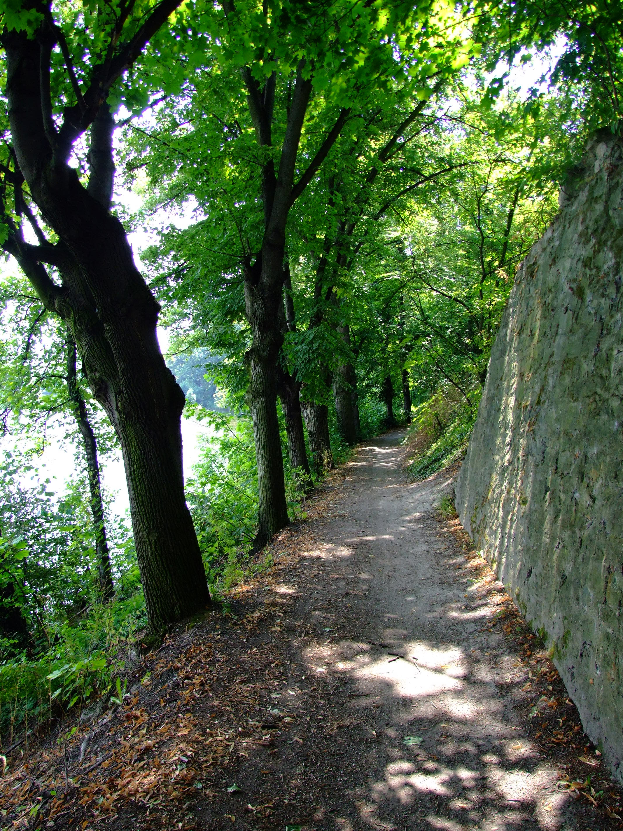 Dvořákova stezka path leading on the bank of Vltava river near Kralupy nad Vltavou, CZhelp